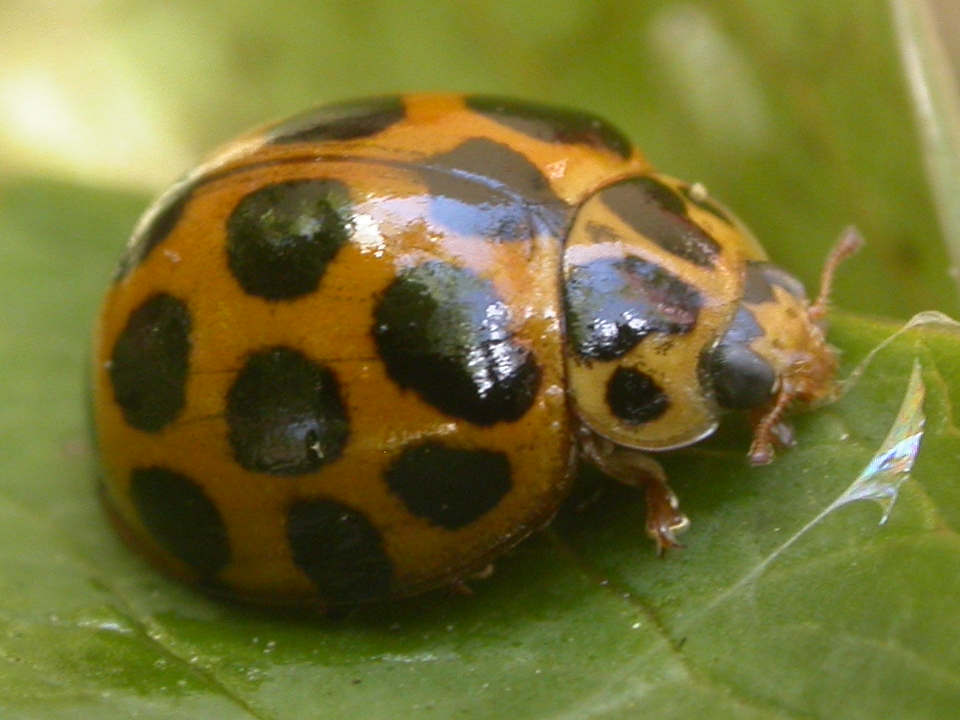 Harmonia conformis (Boisduval, 1835), Aranda, ACT, 11 October 2008